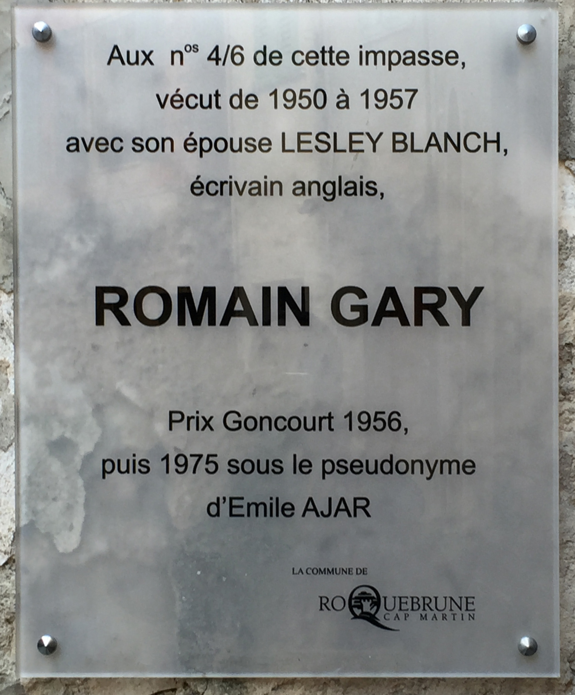 Romain Gary plaque